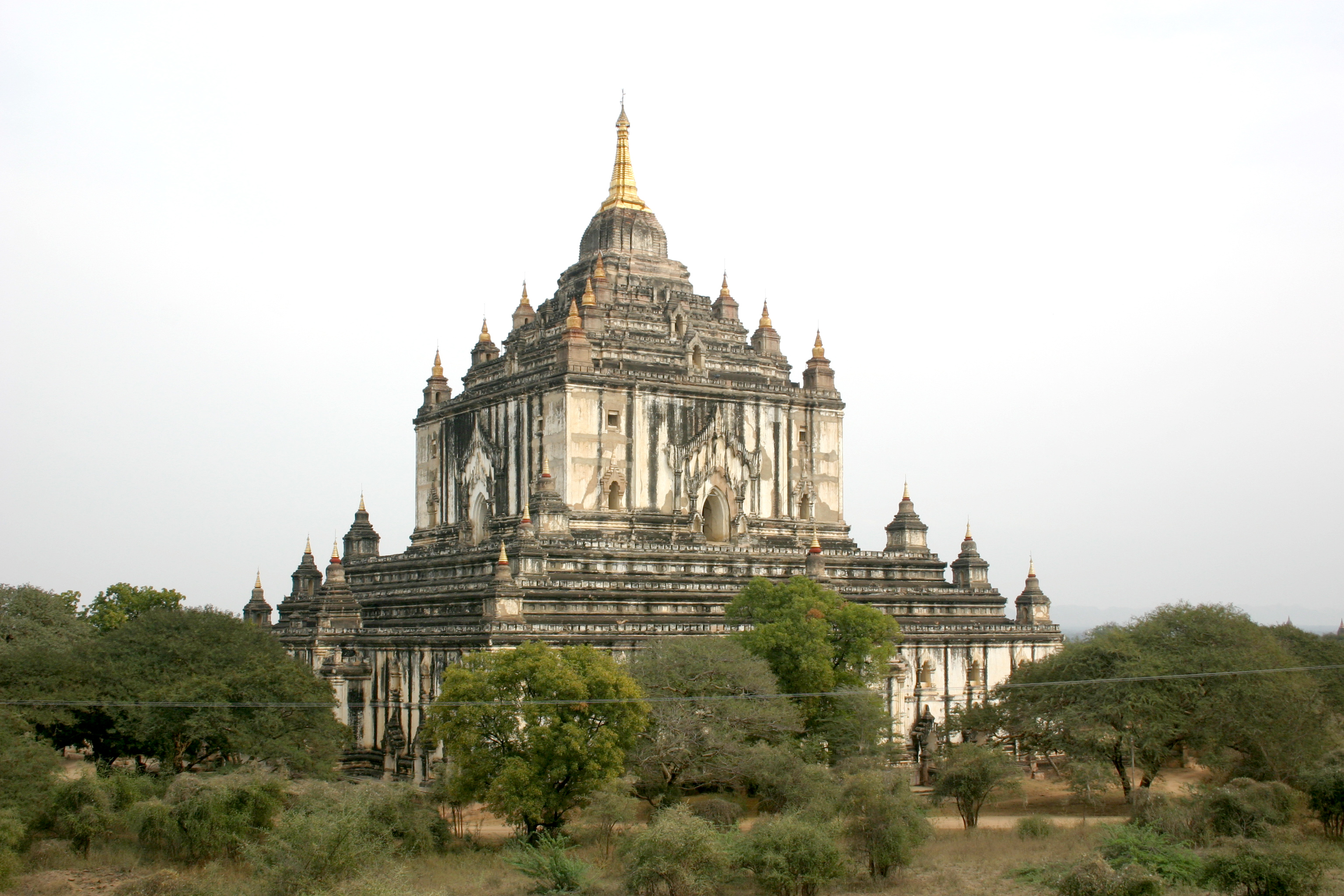 Thatbinnyu temple, Bagan, Myanmar.